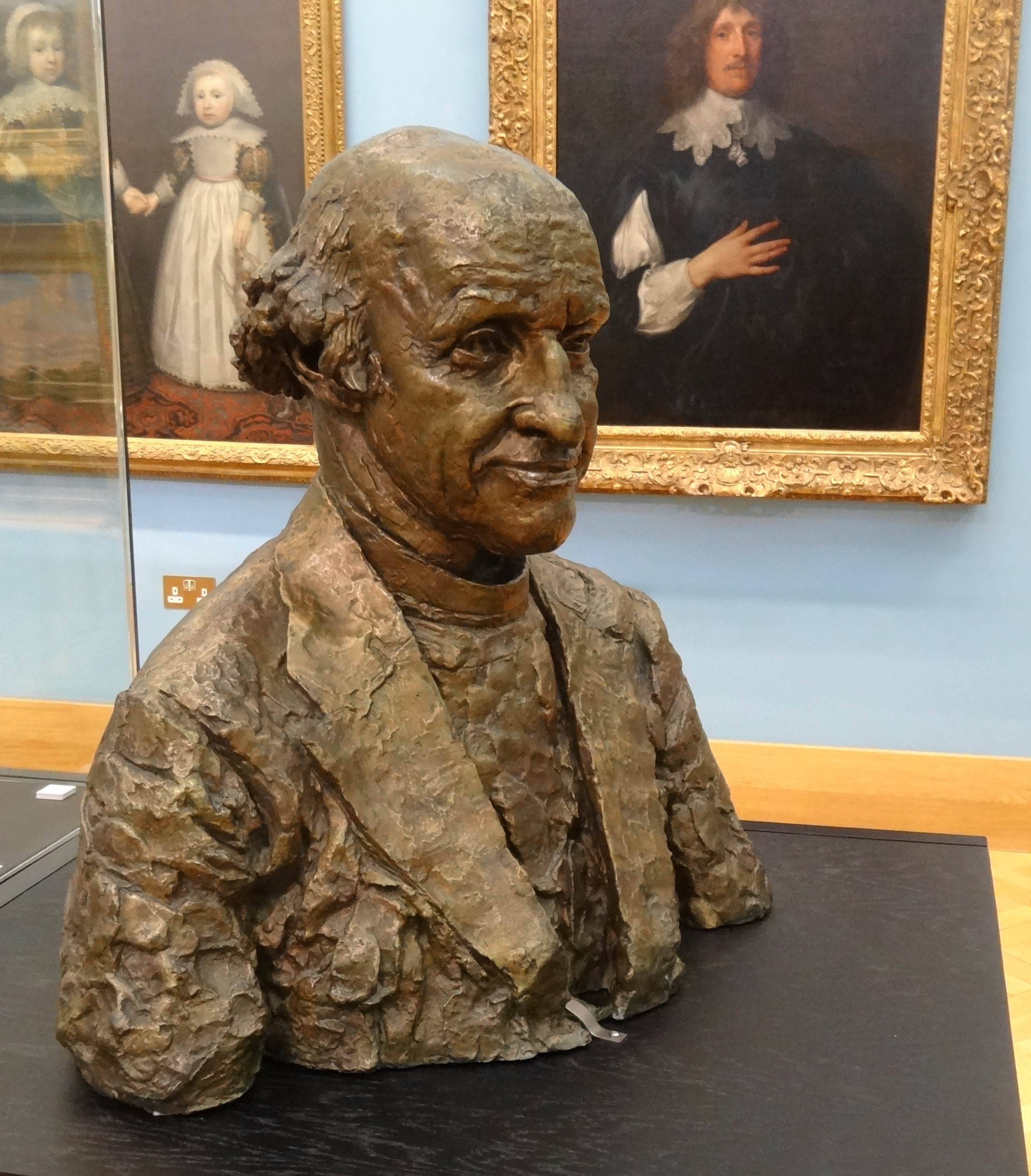 Hewlett Johnson by Jacob Epstein, Beaney Institute